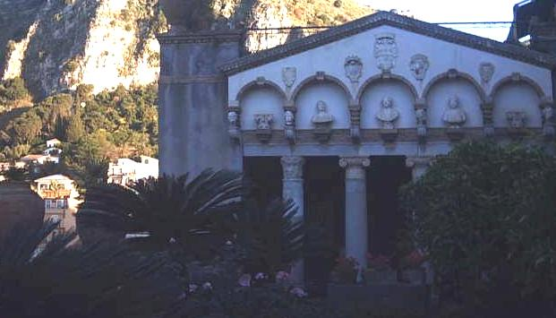 La loggia Massonica denominata "Rinascimento" all'interno del grande giardino di Palazzo Acrosso Papale di Taormina, realizzata come un antico tempio con colonne e capitelli originali greco-romani ritrovati in loco ai primi del Novecento, stemmi di famiglia ed i busti marmorei di Salvatore Cacciola al centro delle due consorti: alla sua destra la prima moglie Florence Trevelyan Trevelyan ed a sinistra la sua seconda consorte, la sua cameriera Ida Mosca.